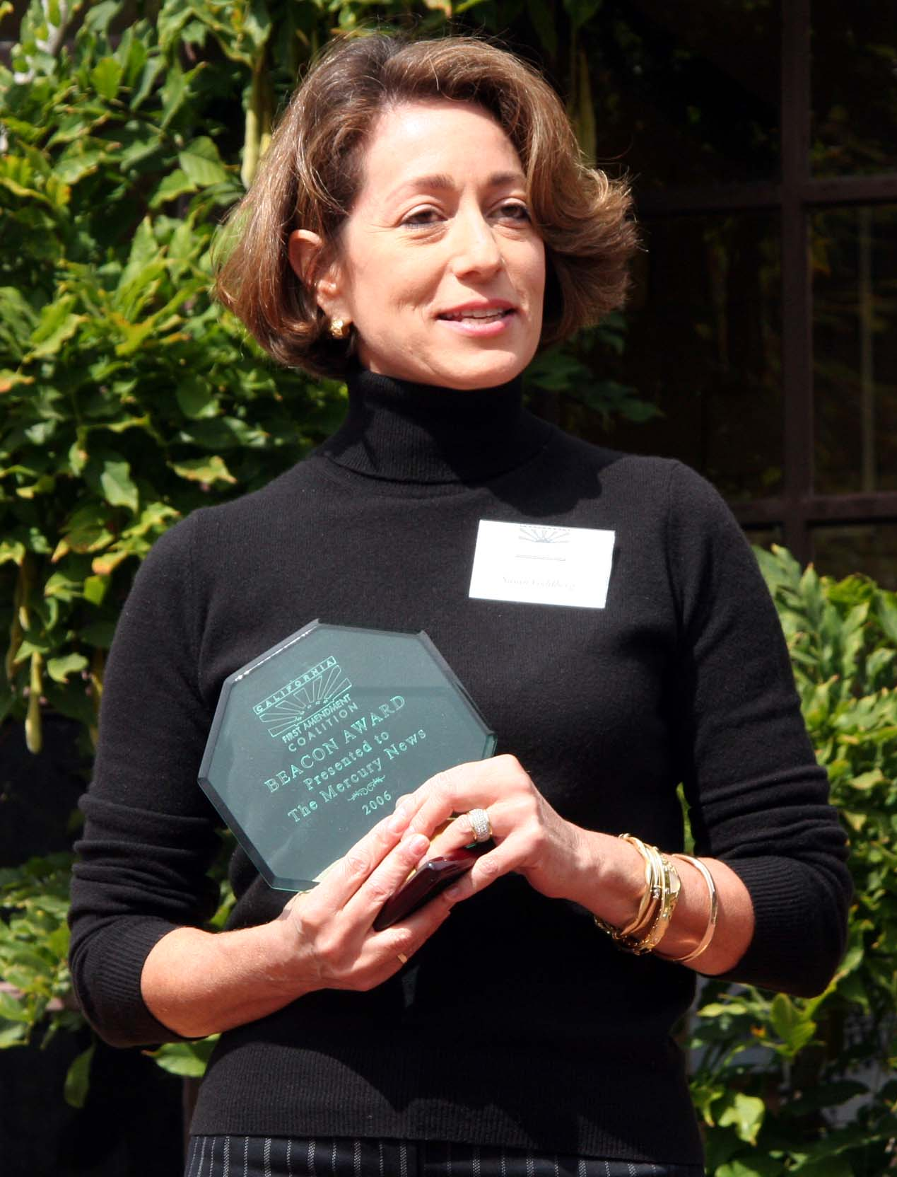 Susan Goldberg, executive editor of the San Jose Mercury News, accepting an award at the First Amendment Coalition event at UC Berkeley, Sept. 30, 2006.